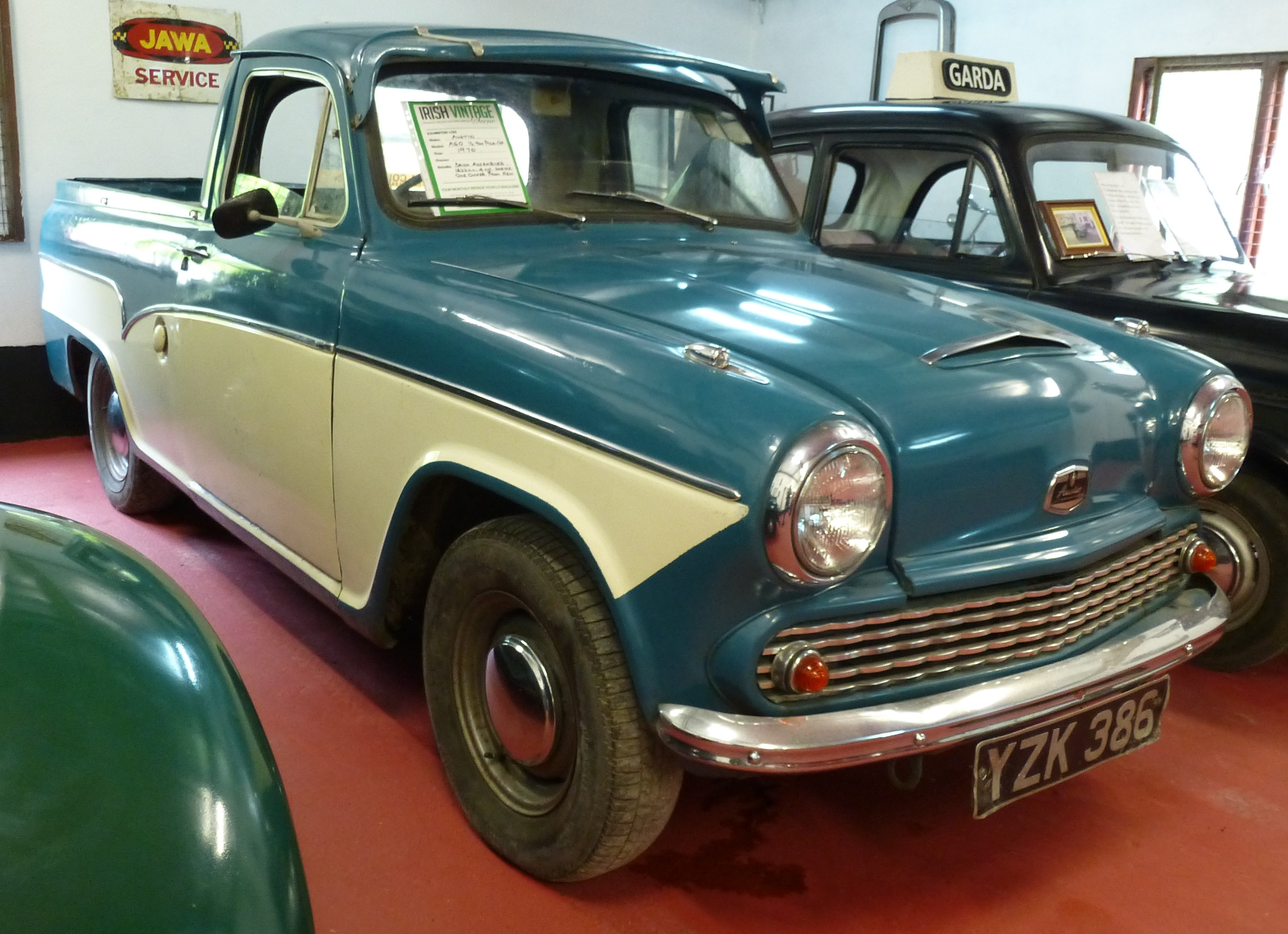 Austin A 60 von Brittain Group aus Irland